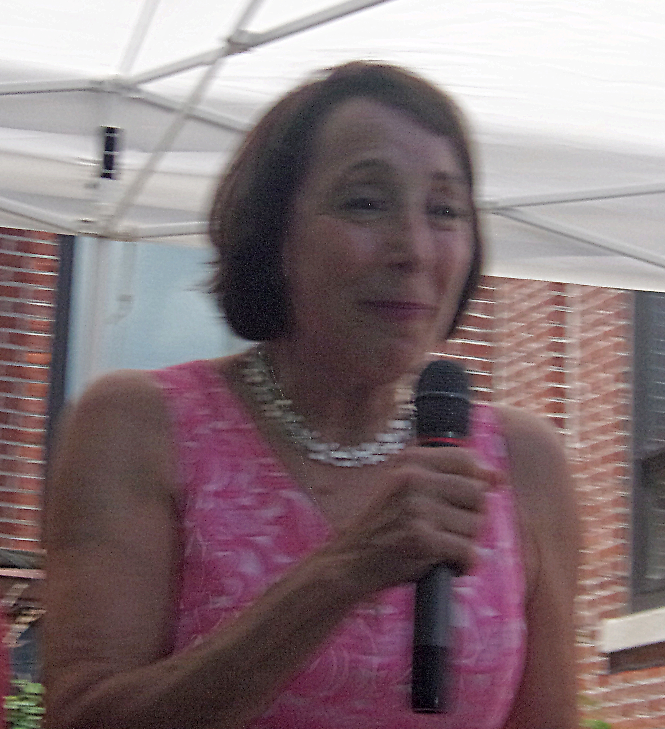 Didi Conn at the Greenville Graffiti Car Show, in Greenville, IL on June 16th, 2018.